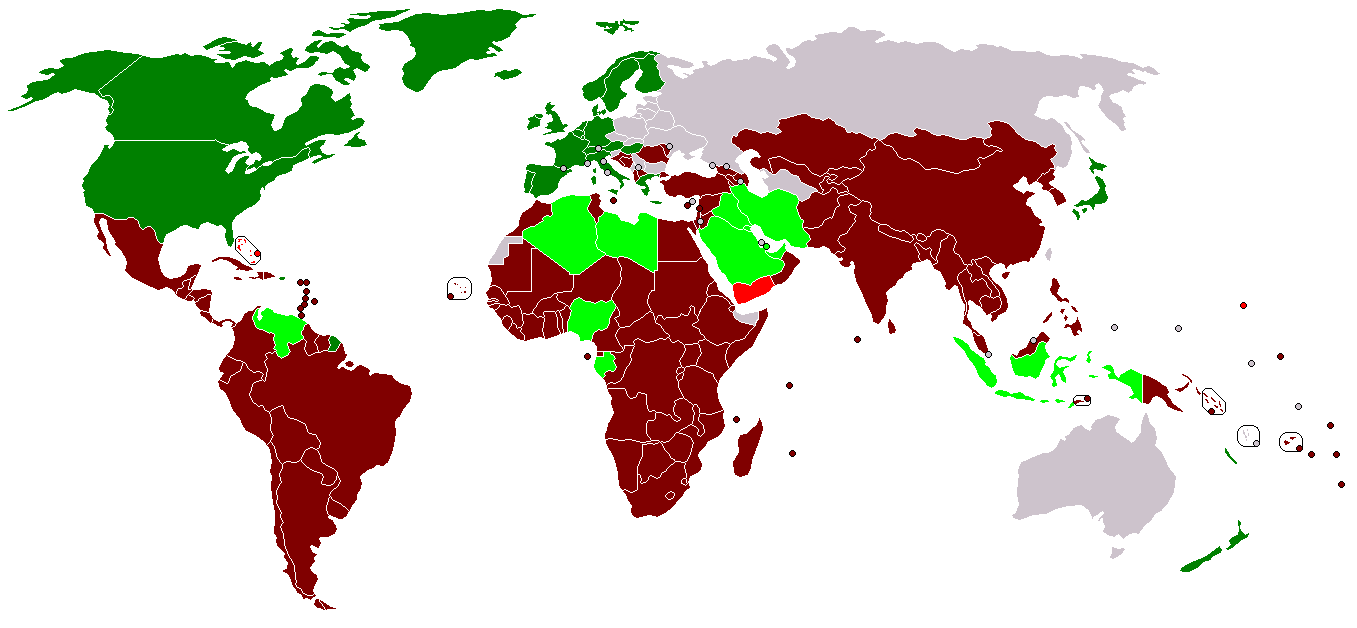 IFAD members states. list A list B list C ratified list C signed/approved, but not yet ratified